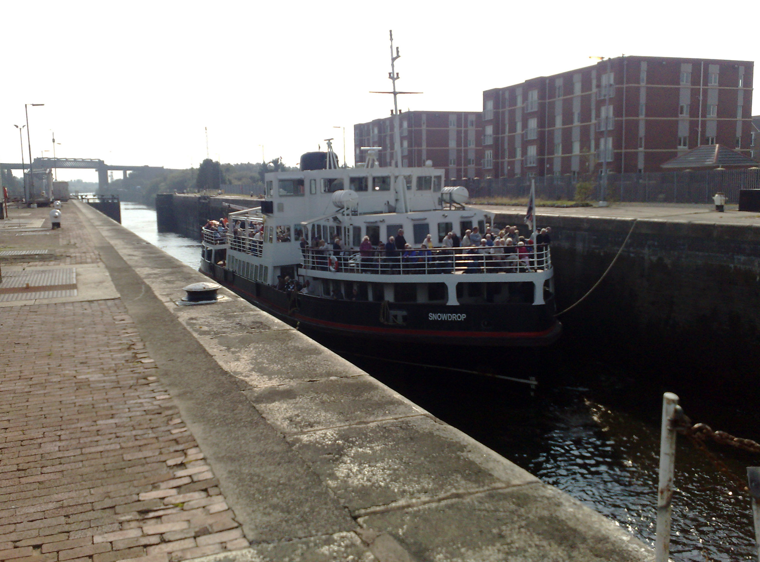 The passenger ferry Snowdrop heading east to Manchester, being lifted through Irlam Locks.